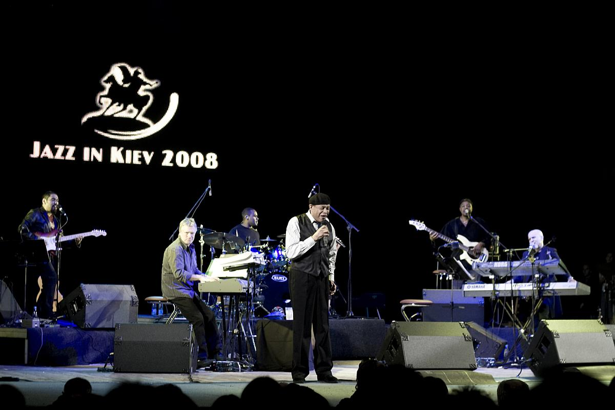 Al Jarreau during "Jazz in Kiev 2008" fest. Al Jarreau - vocal Joe Turano - keyboards Debbie Davis - backing vocals Mark Simmons - drums Stanley Sargeant - bass Larry Williams - keyboards John Calderon - guitar